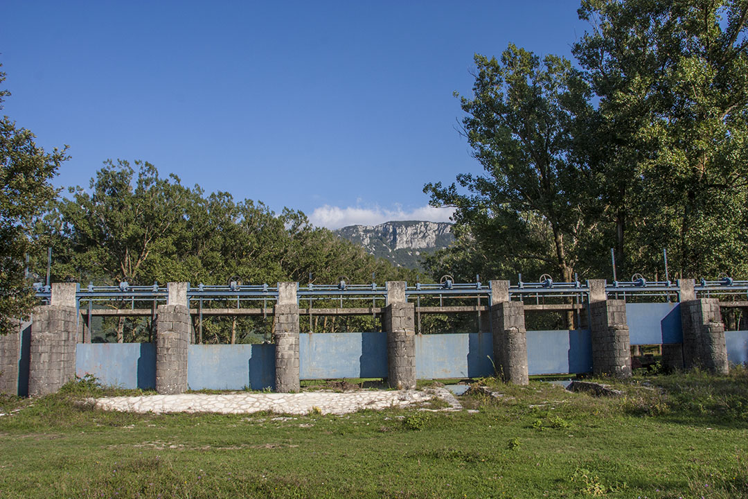 Barriers to regulate Boljunčica water